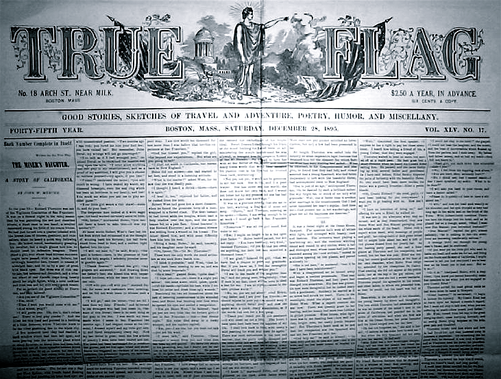 True Flag (Boston, Massachusetts; no.18 Arch St., near Milk St.). "Good stories, sketches of travel and adventure, poetry, humor and miscellany"